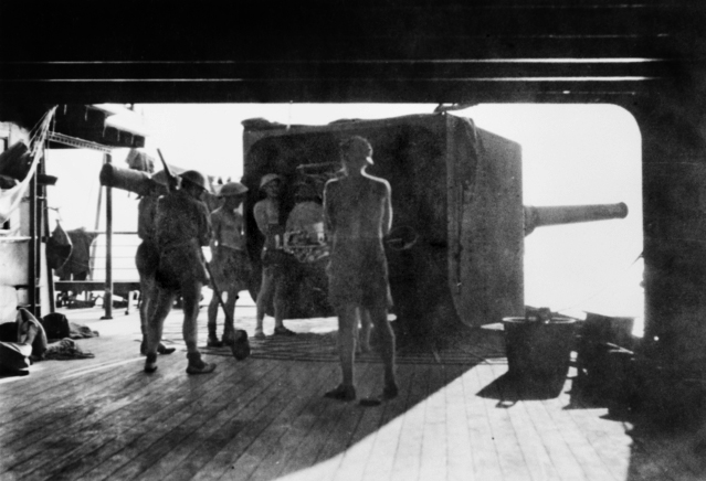 ON BOARD HM TRANSPORT LACONIA, AT SEA. TROOPS OF THE A.I.F. RETURNING TO AUSTRALIA FROM THE MIDDLE EAST PREPARING TO MAN A BL 6-INCH MARK VII GUN DURING THE VOYAGE. See also File:6 inch gun Laconia March 1942 AWM 028103.jpg